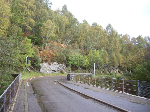 Crossing the Cannich Bridge On the A831 towards Struy and Beauly.